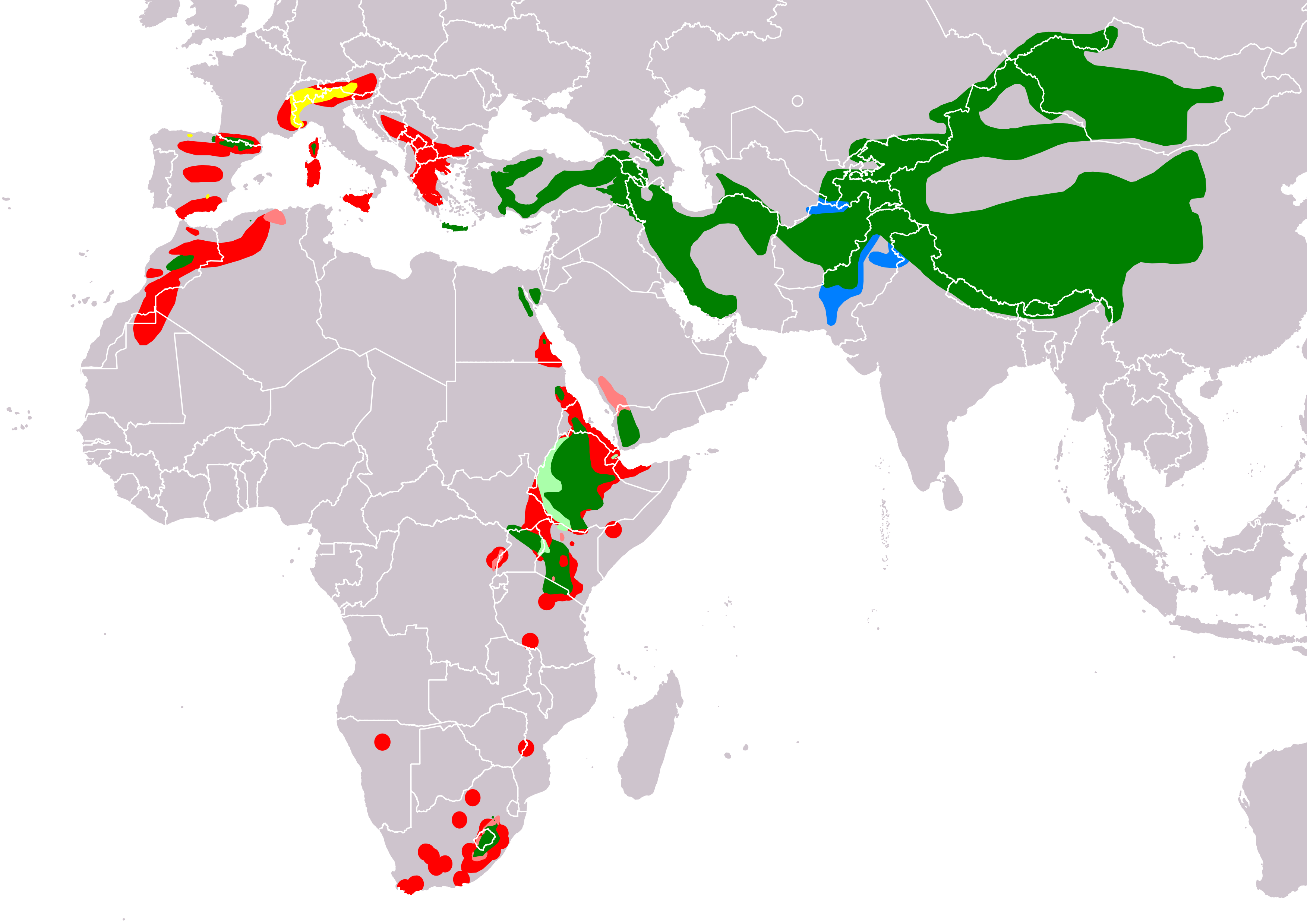 Map of bearded vulture (Gypaetus barbatus) according to IUCN version 2018.2 , Legend: Extant, resident (#008000), Extant, non-breeding (#007FFF), Extinct (#FF0000), Probably extinct (#FF8080), Possibly Extant (resident) (#AAFFAA), Extant & Reintroduced (resident) (#FFFF00)